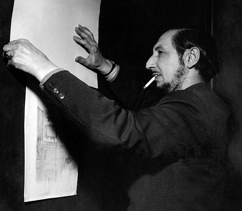 The Italian architect Carlo Scarpa, an admirer of the work of Frank Lloyd Wright, is carefully studying the drawings of Wright while smoking a cigarette. Venice (Italy), March 1954.